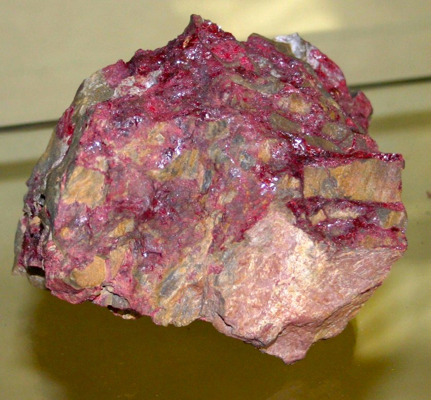 Source: Chris Ralph. This photo taken by Chris Ralph of [1], Photographer and author: photo taken by author.